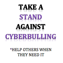 Take A Stand Against Cyberbullying